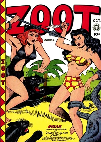 Cover of Zoot Comics #9 (1947)